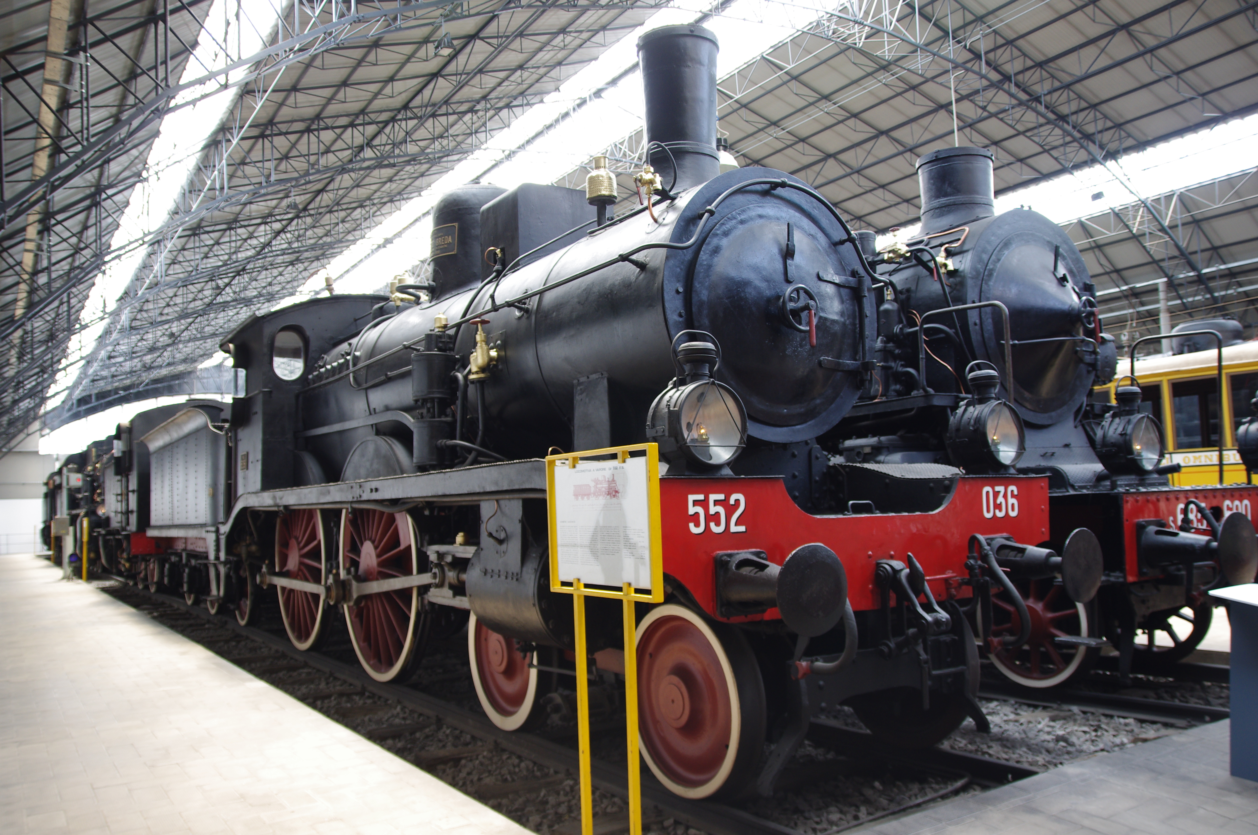 Locomotives FS 552.036 (on the left) and FS 685.600 in National Museum of Science and Technology Leonardo da Vinci in Milan